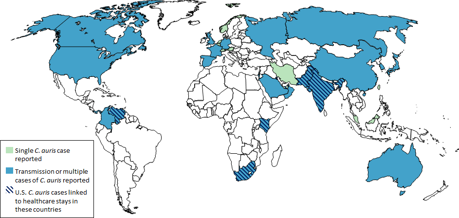 Documentation of Candida auris spread globally